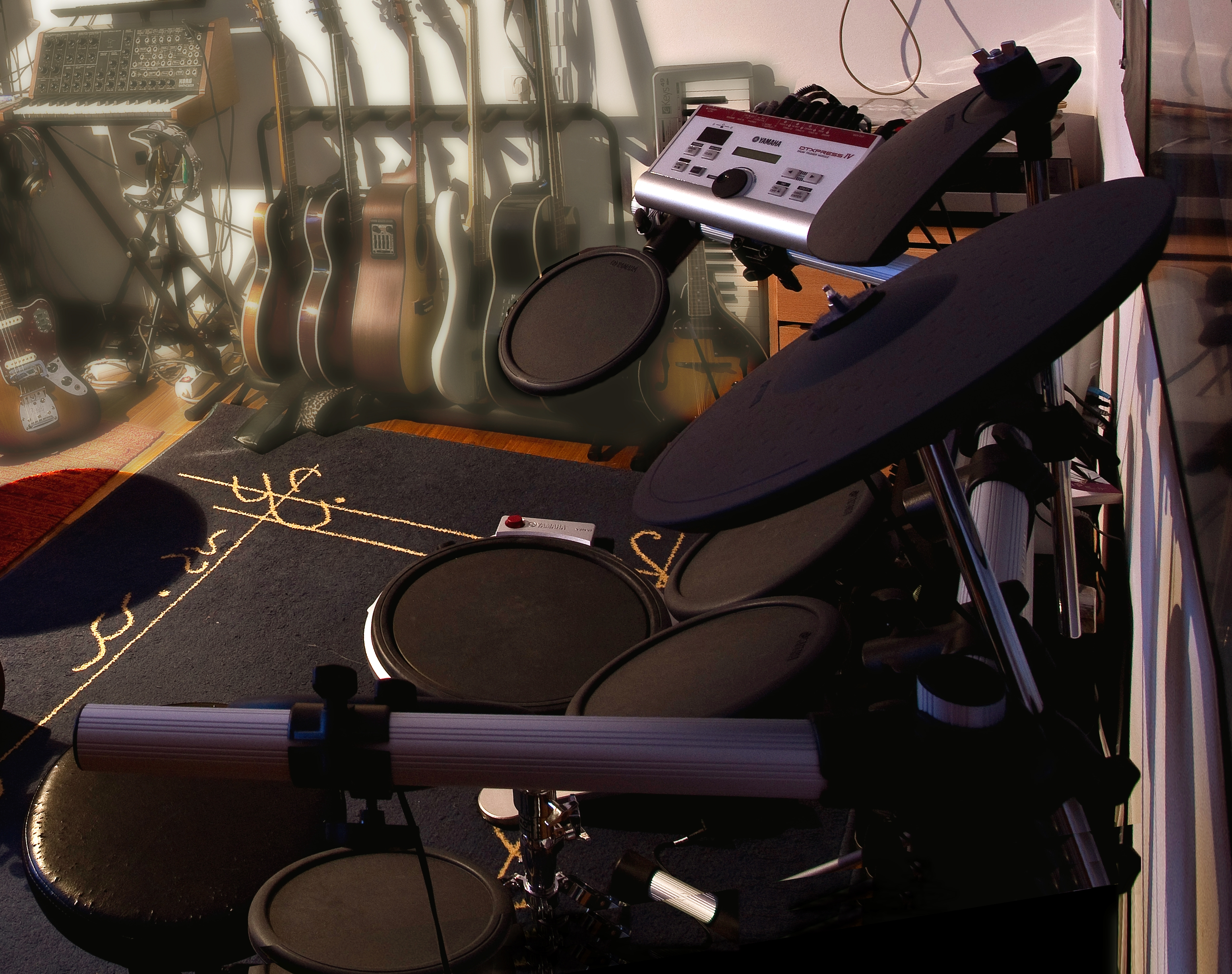 Fanny + Alexander's Home Studio